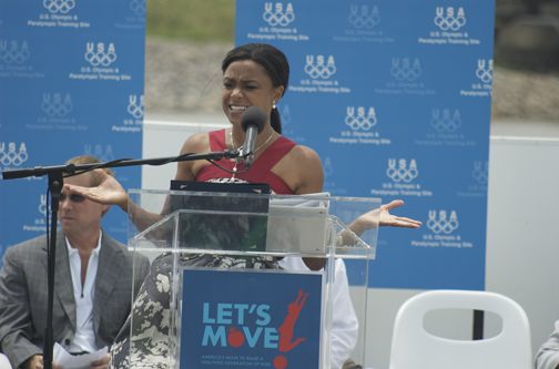 Olympic Gymnast Dominique Dawes at Olympic Day.